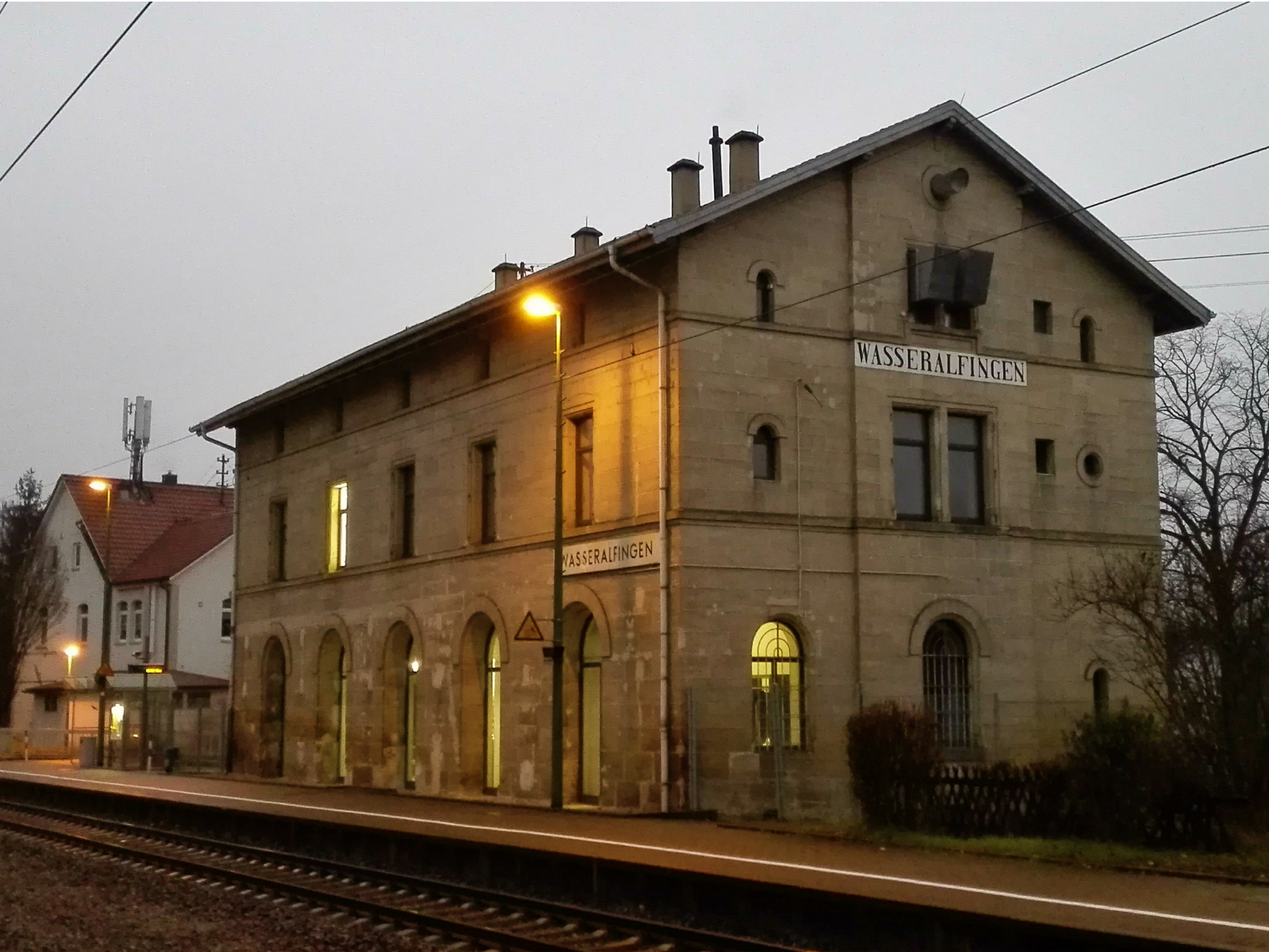 Image of the trainstation Wasseralfingen